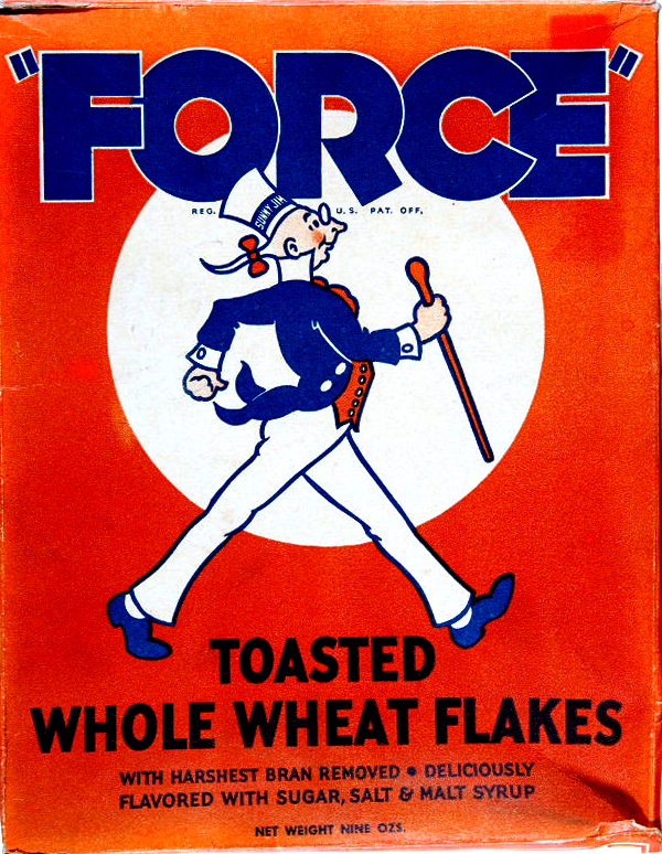 Image from box of Force Cereal, depicting mascot "Sunny Jim"